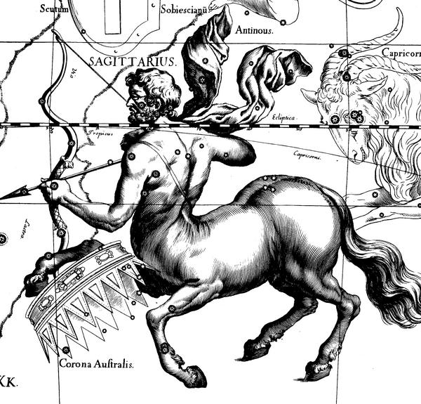 The Sagittarius constellation from Uranographia by Johannes Hevelius. The view is mirrored following the tradition of celestial globes, showing the celestial sphere in a view from "ouside"